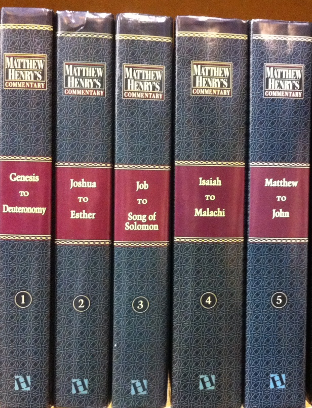 The Biblical commentaries written by Matthew Henry. Others wrote the set for the rest of the Bible.